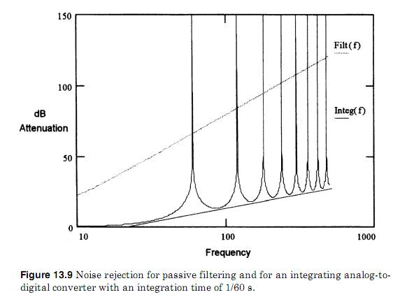 Noise rejection for passive filtering nad for an integrating analog-to-digital converter